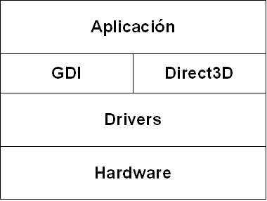 Direct3D Abstract Layer. Spanish version. You can also get the English version